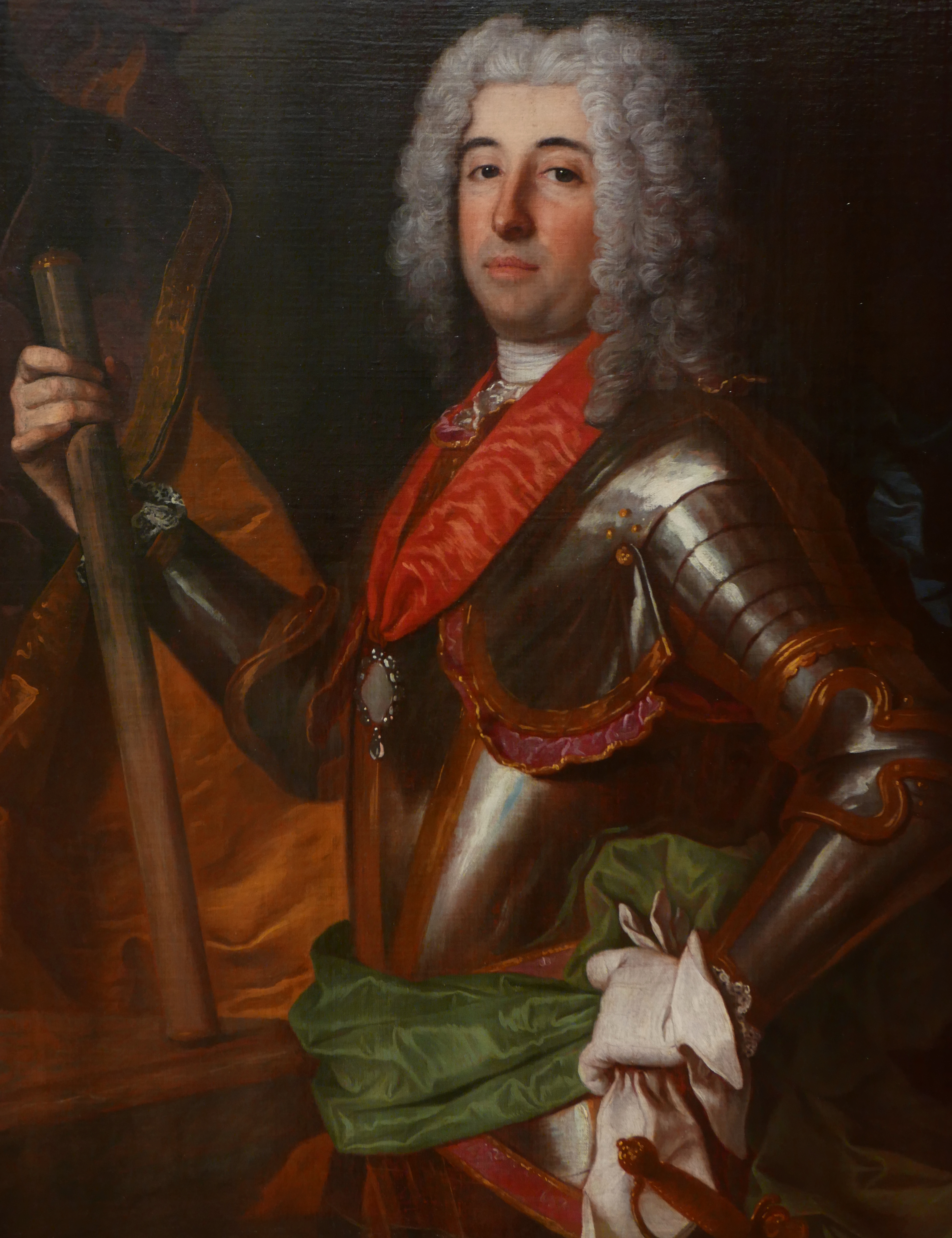 Montpellier (Hérault, Languedoc, Occitanie), Musée Fabre, temporary exhibition, unfortunately interrupted by the covid 19 pandemic, "Jean Ranc, a native of Montpellier at the court of Kings". Dom António de Bragança, infant from Portugal, in 1729.